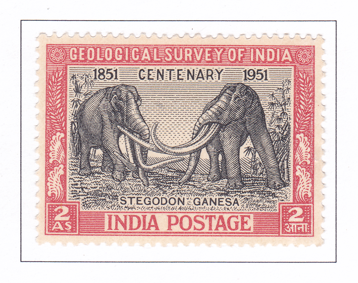 A commemorative postage stamp on Geological Survey of India Centenary by India Post. Date of Issue: 13th January 1951 Denomination: 2 anna Category: Thematic